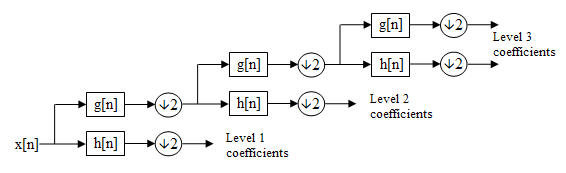 Discrete wavelet transform - a 3 level filter bank. Česky: Diskrétní vlnková transformace - 3 stupňová banka filtrů.